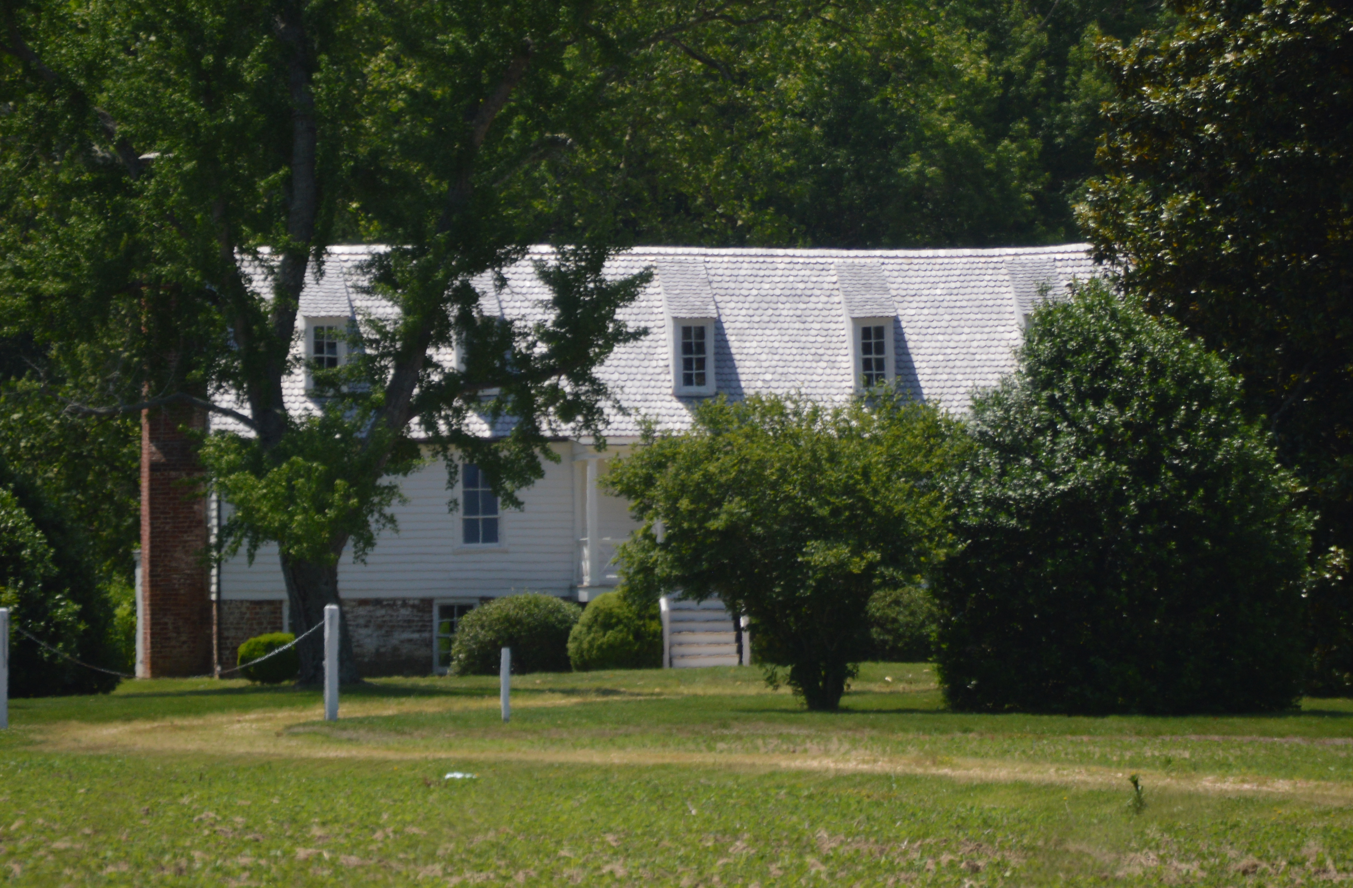 Distant view of Glencairn, located along U.S. Route 17 east of Loretto in Essex County, Virginia, United States. Built beginning in 1730, the house is listed on the National Register of Historic Places.